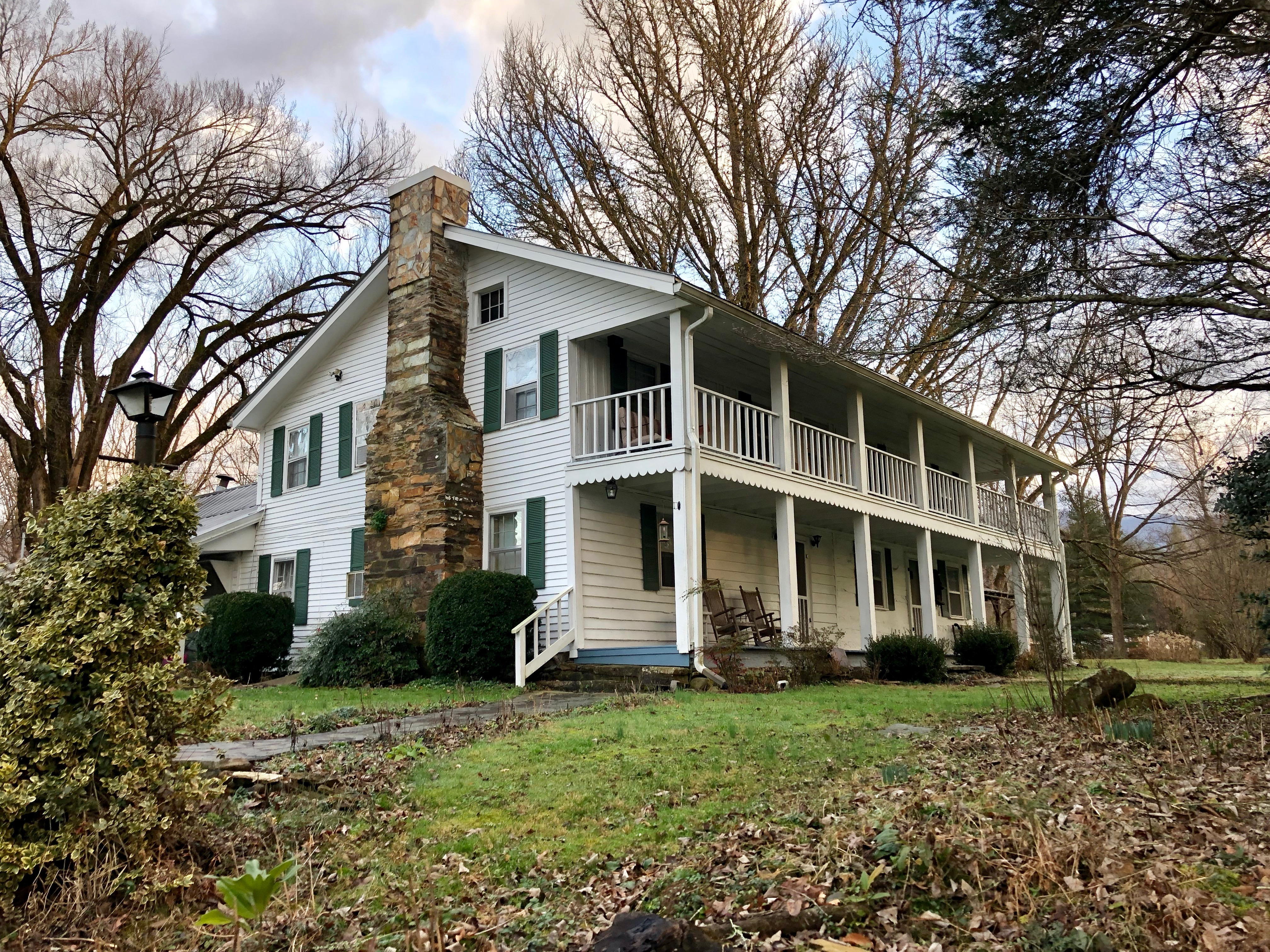 Walker's Inn, Valleytown, NC